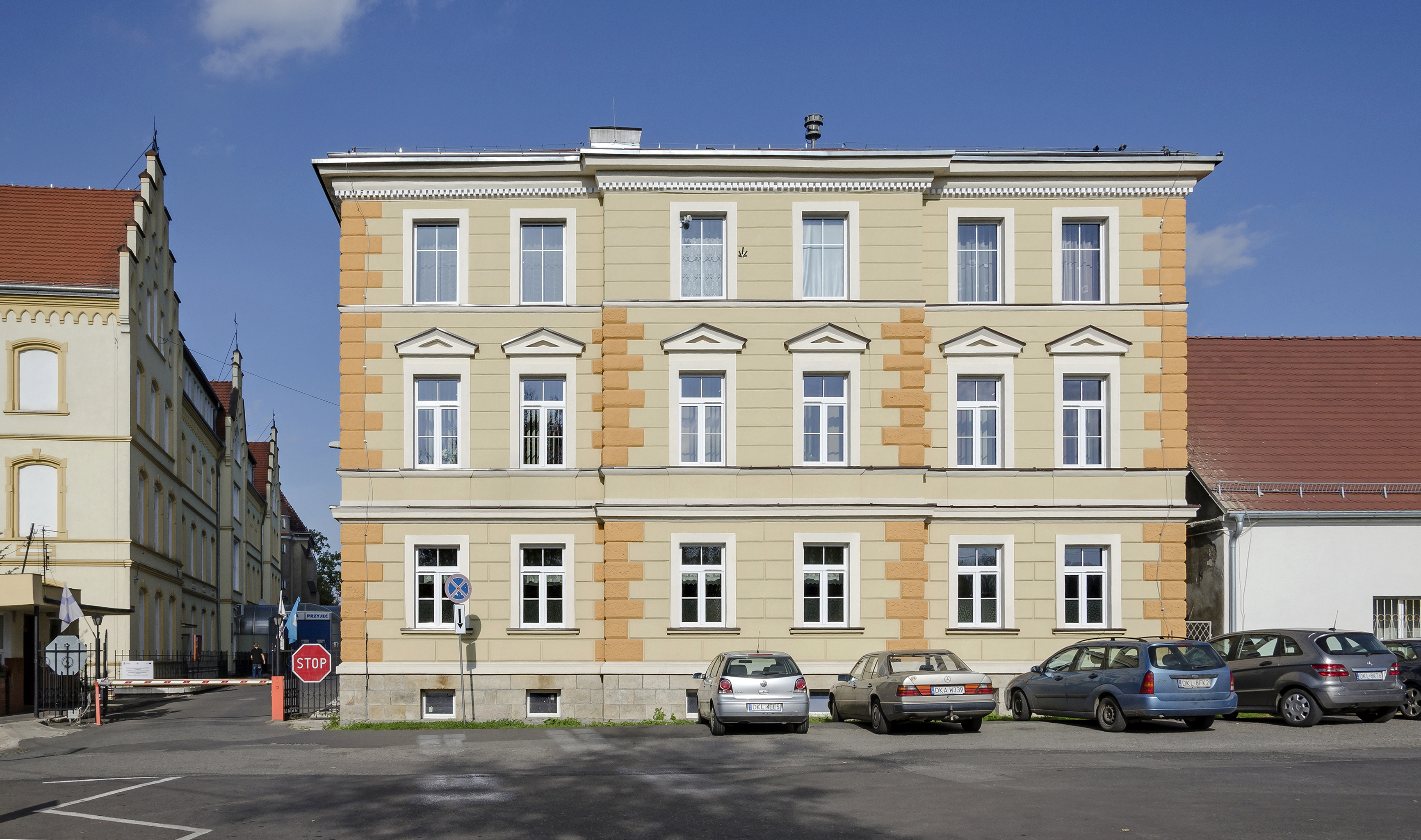 Administration building at Kłodzko Hospital